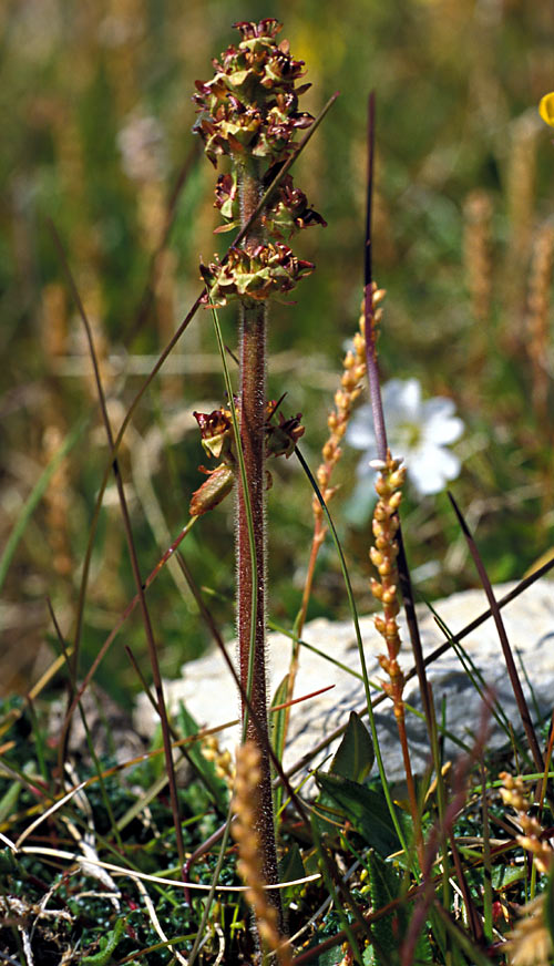 Hawkweed-leaved Saxifrage, Saxifraga hieracifolia, Svalbard,.